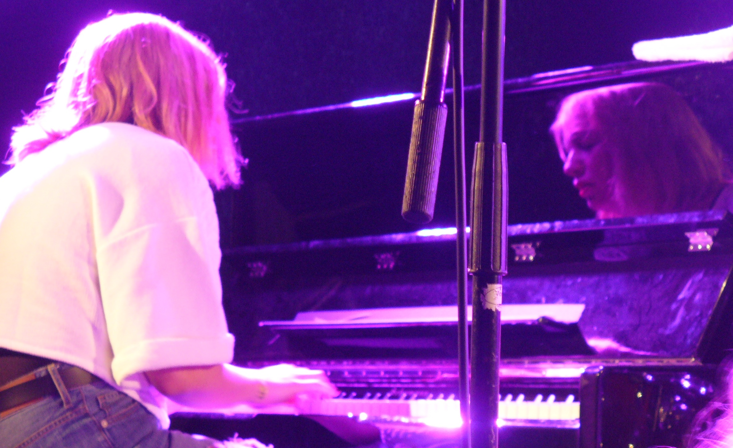 Marte Eberson at Vozzajazz April 11, 2014